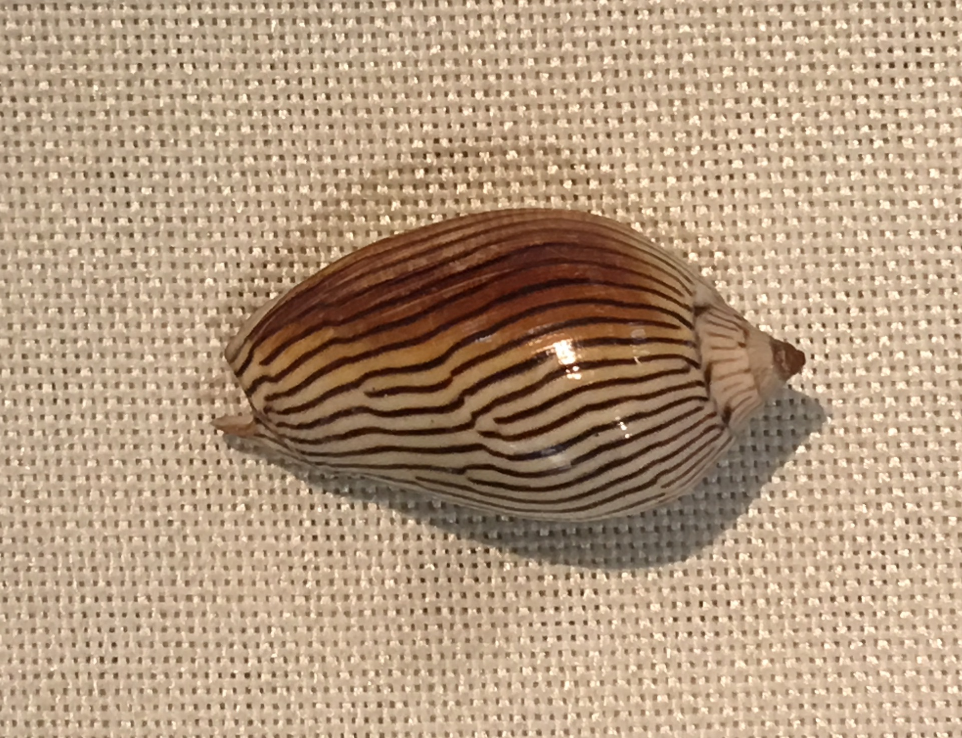 Specimen of shell (Mollusca) from the Gulf of Tonkin, in the Beijing Museum of Natural History (2017). Collection belonging to the Natural History Museum of Guangxi.